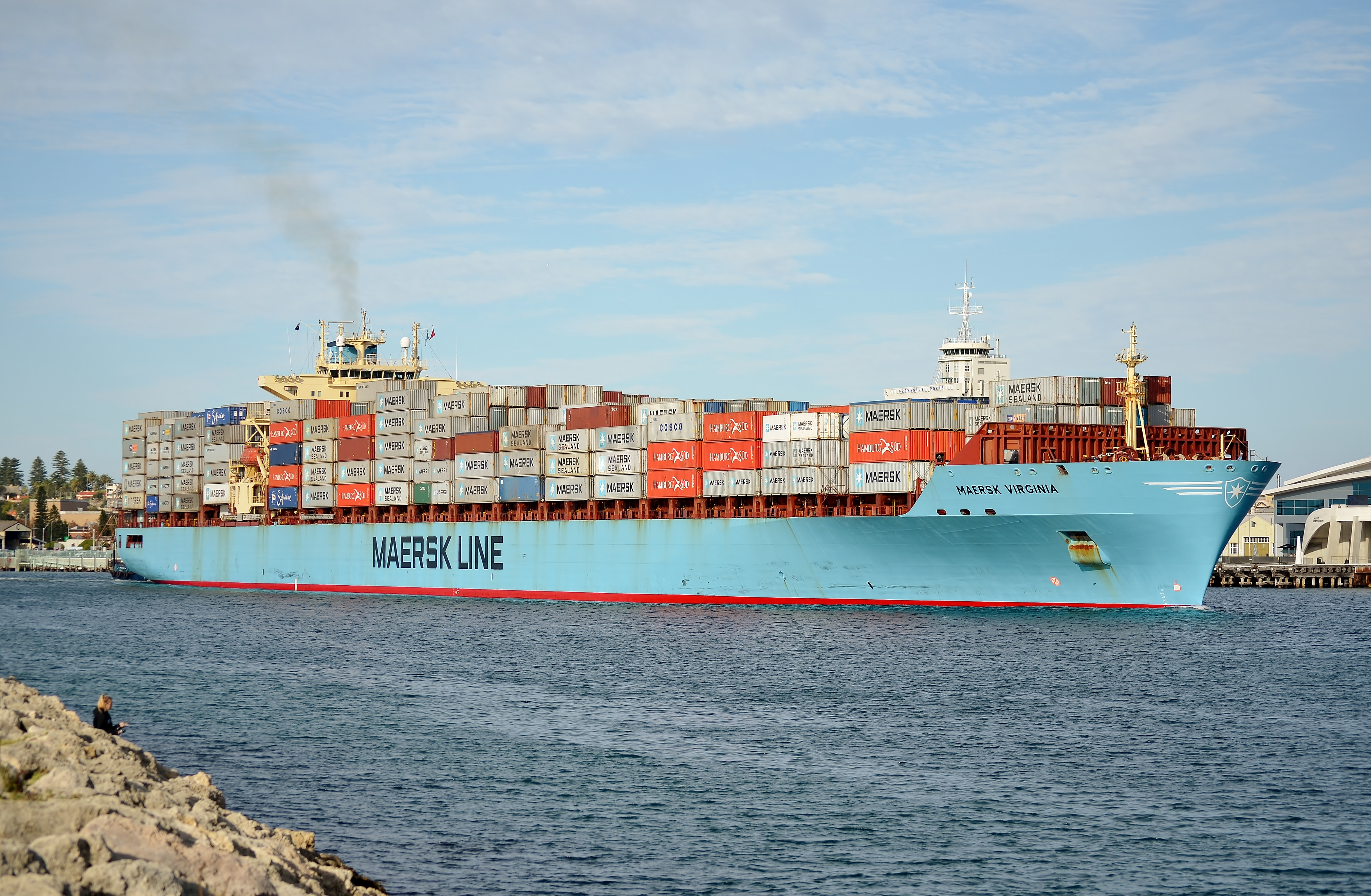 Container ship Maersk Virginia departing from Fremantle Harbour, Western Australia, on a voyage to Tanjung Pelepas, Johor, Malaysia.